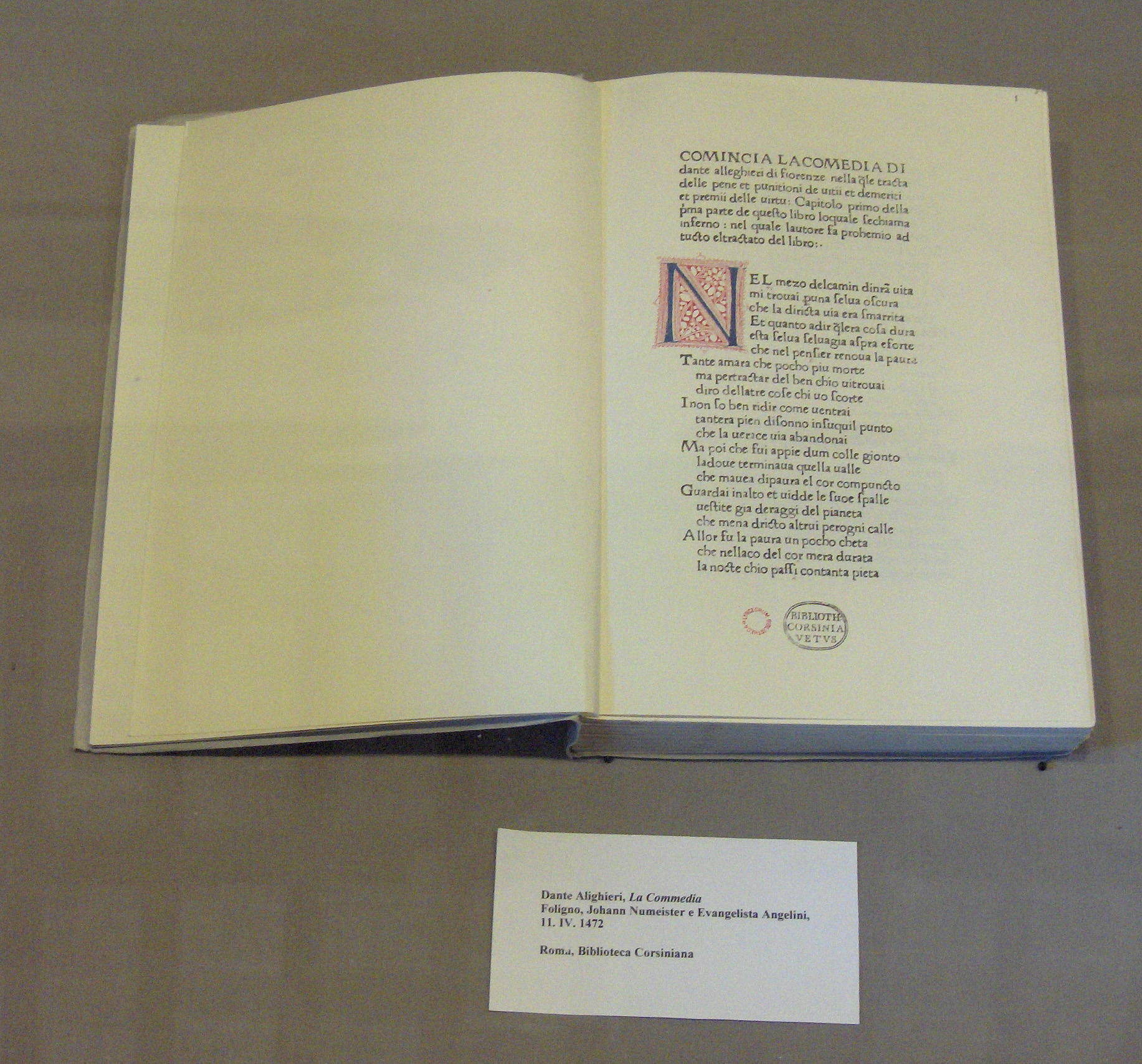 An anastatic copy of "The Divine Comedy" by Dante Alighieri; printed on 11 April 1472; Hall of the Liberal Arts and of the Planets; Trinci Palace, Foligno, Italy